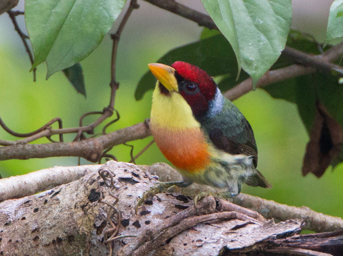 Lemon-throated Barbet in rain forest, Ecuador